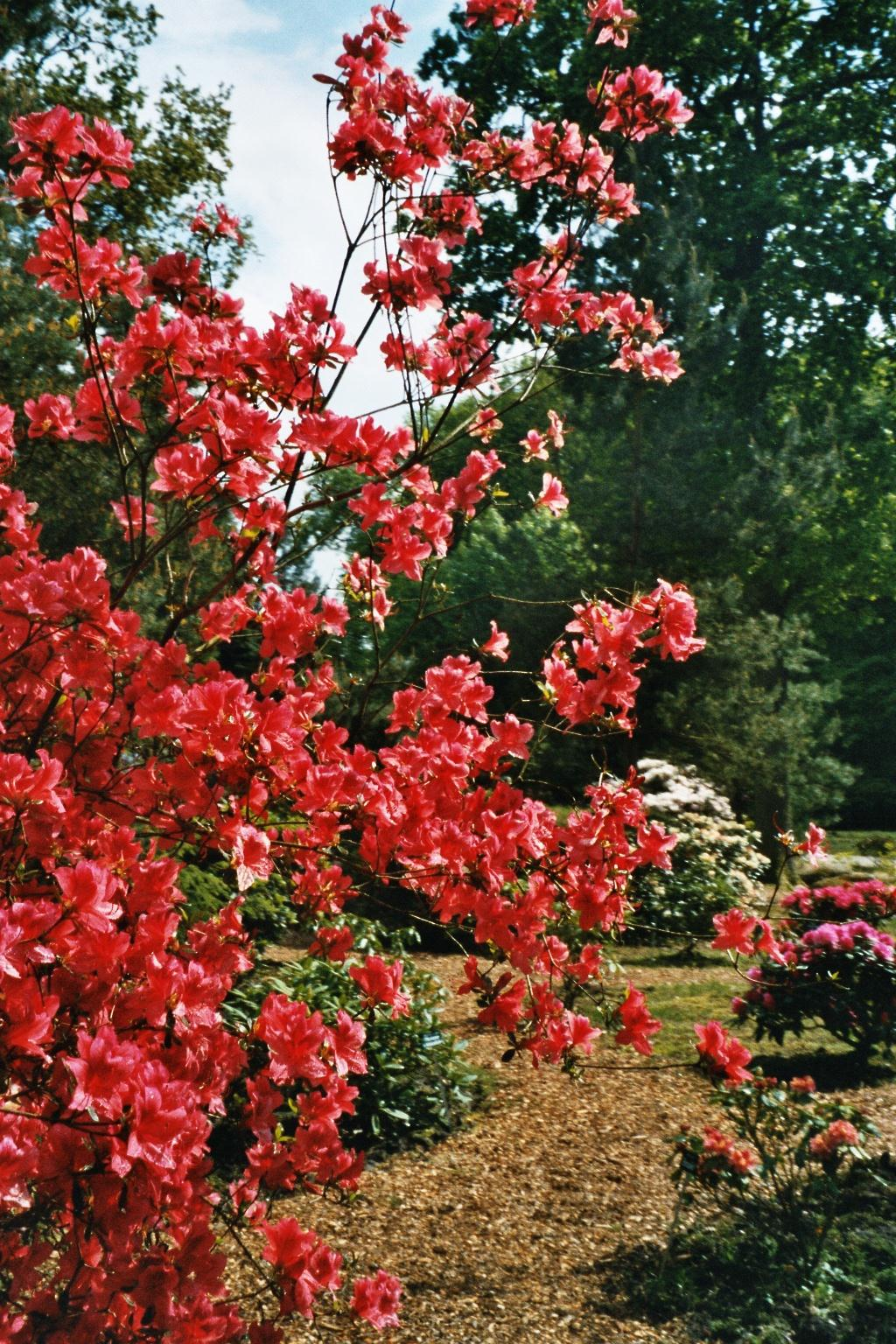 Rhododendronpark Linswege bei Westerstede (Landkreis Ammerland)